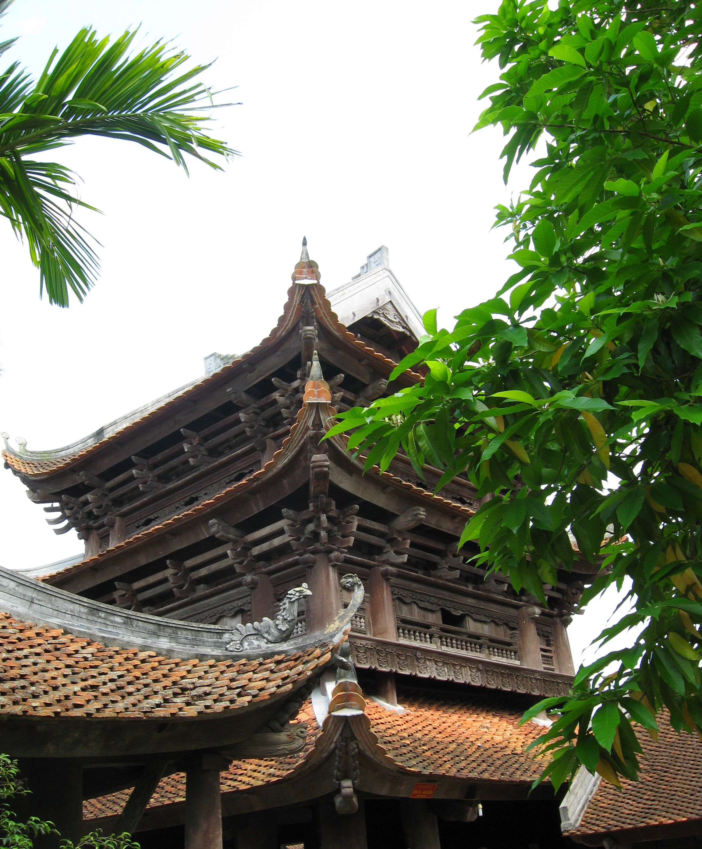 Keo Pagoda